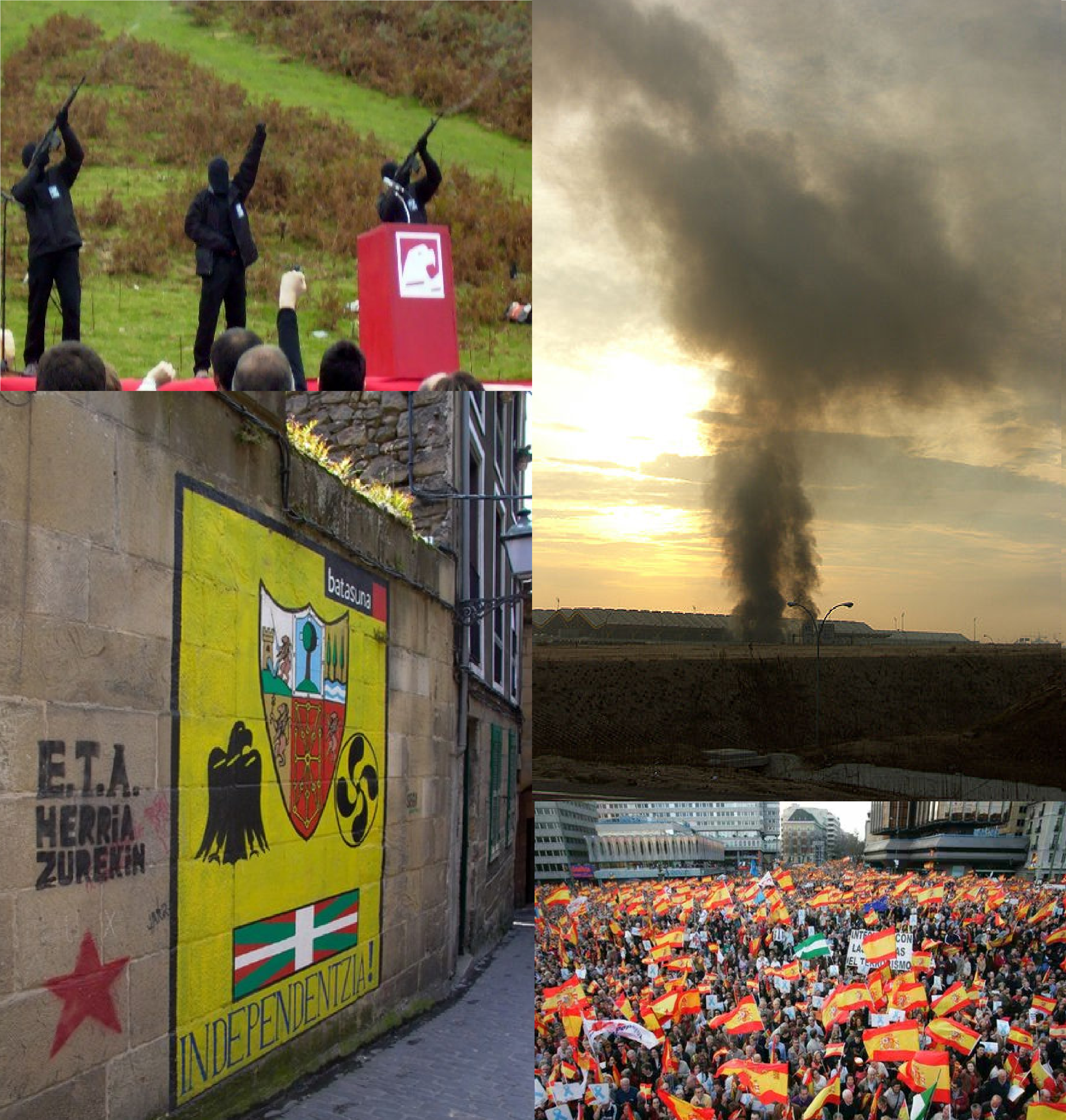 Collage of images about the Basque conflict. Pictures taken from Wikicommons. Not the final version.